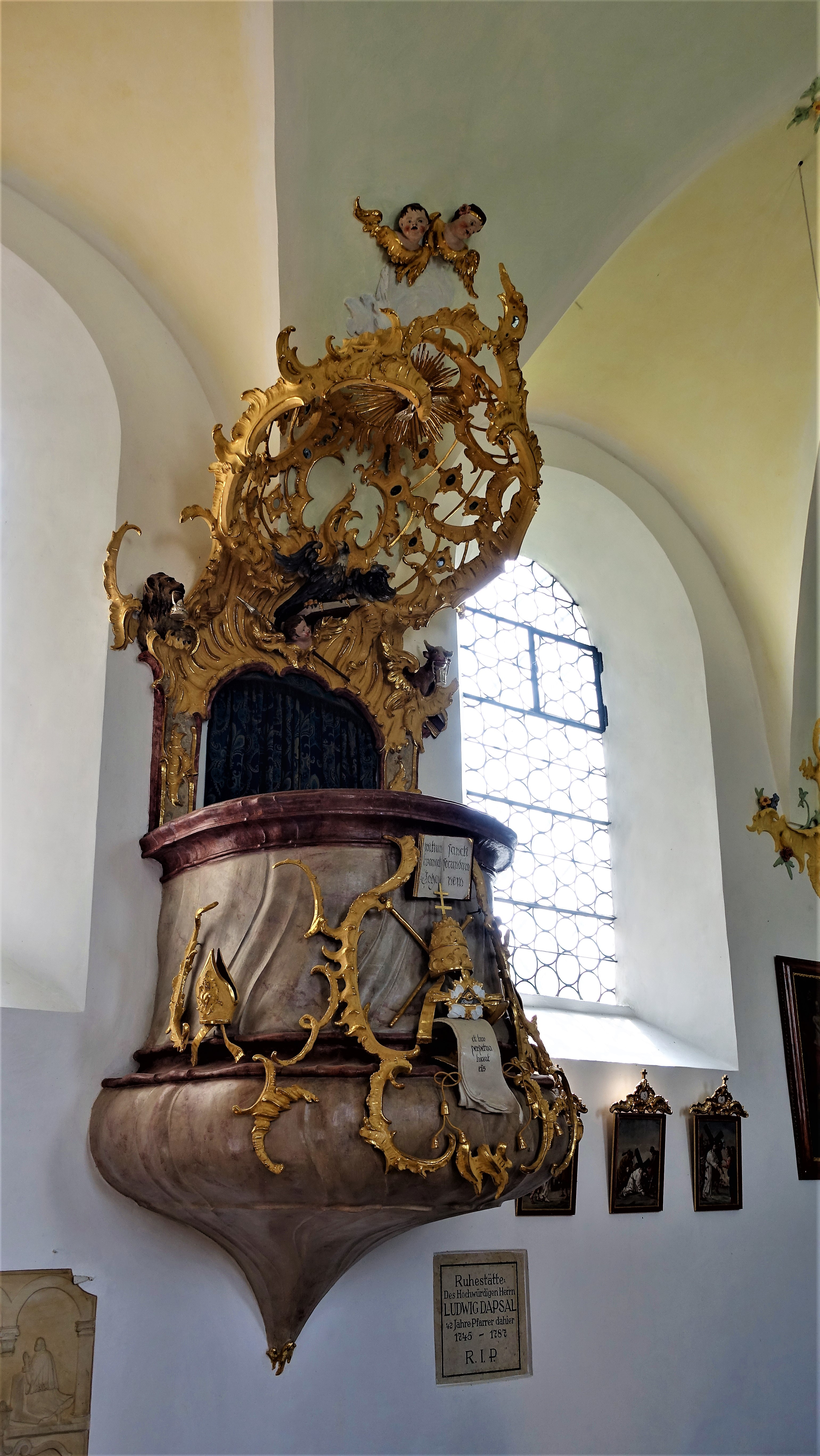 Masterpiece of plaster of Rokkoko pulpit, created by masters of the "Wessobrunner Schule" (ca.1765) with delicate Rocaille in the church "Geburt Mariä" in Eschlbach / BavariaThis is a photograph of an architectural monument.